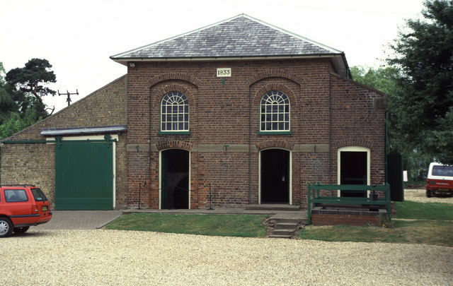 Pinchbeck Pumping station